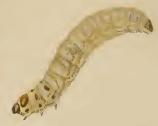 Stainton’s Natural History of the Tineina (1855–1873): Coleophora discordella